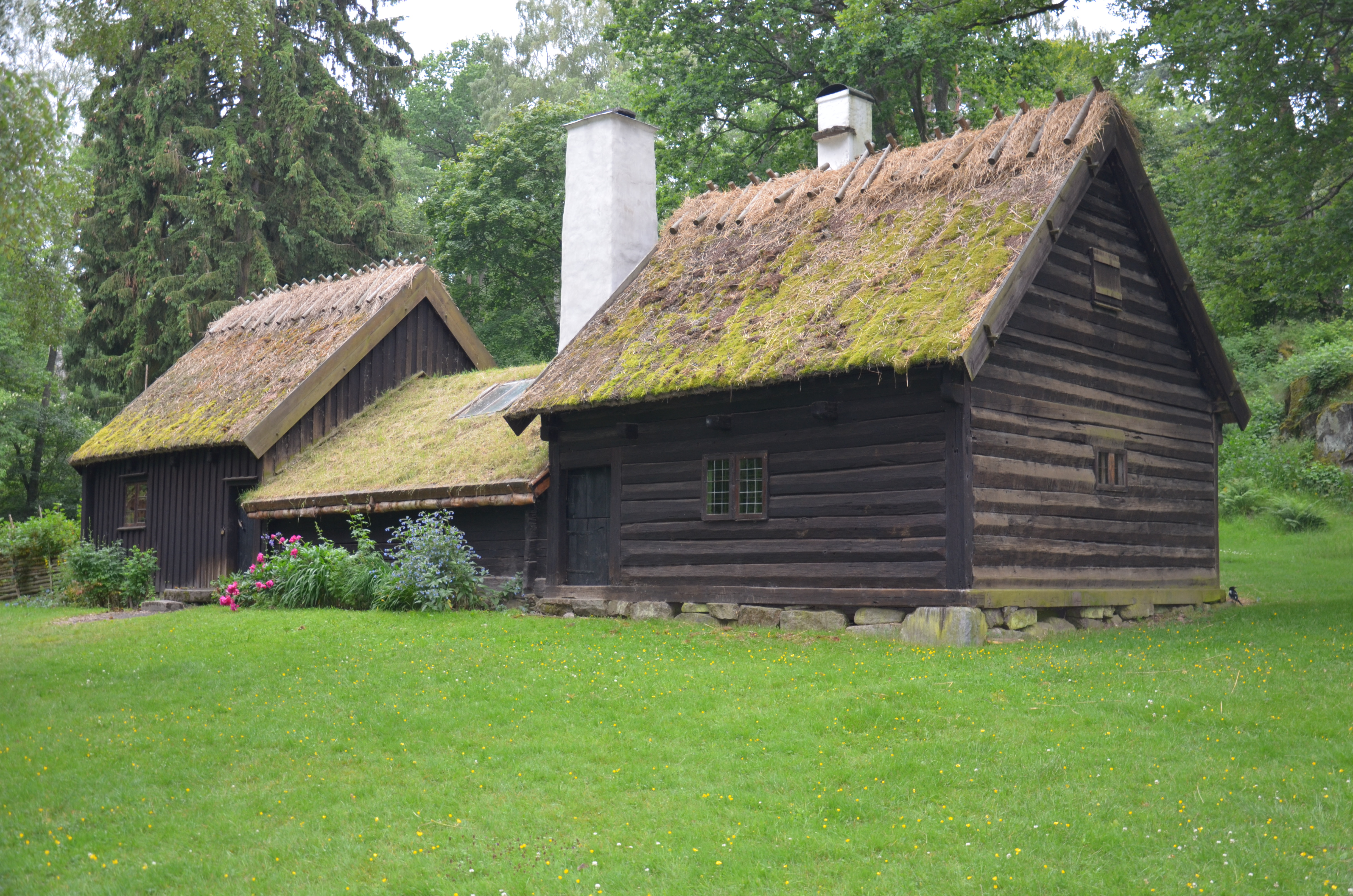 Jönköpings stadspark. Ryggåsstugan från Sjöaryd i Markaryds socken, flyttad till stadsparken 1904